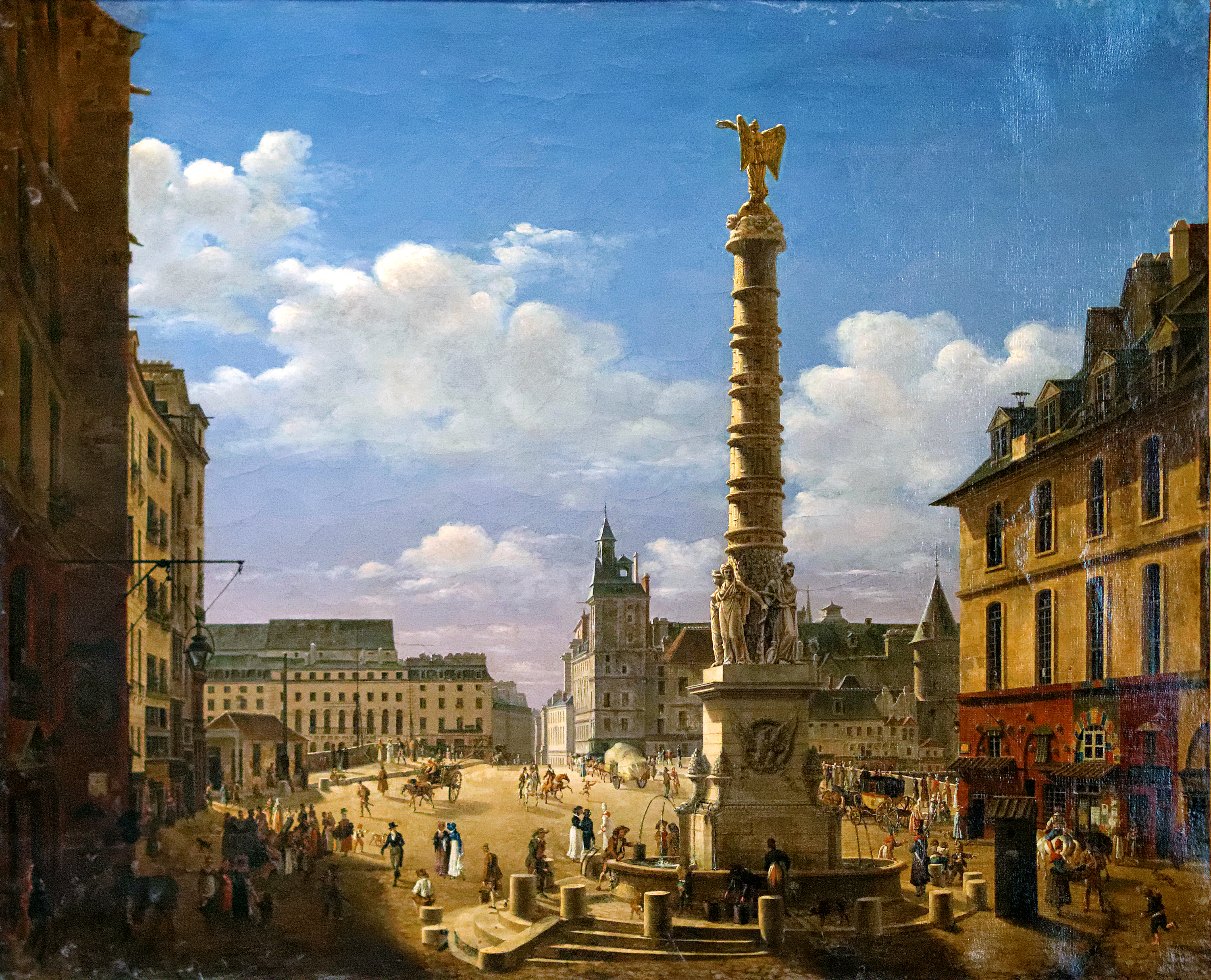 La Place du Châtelet